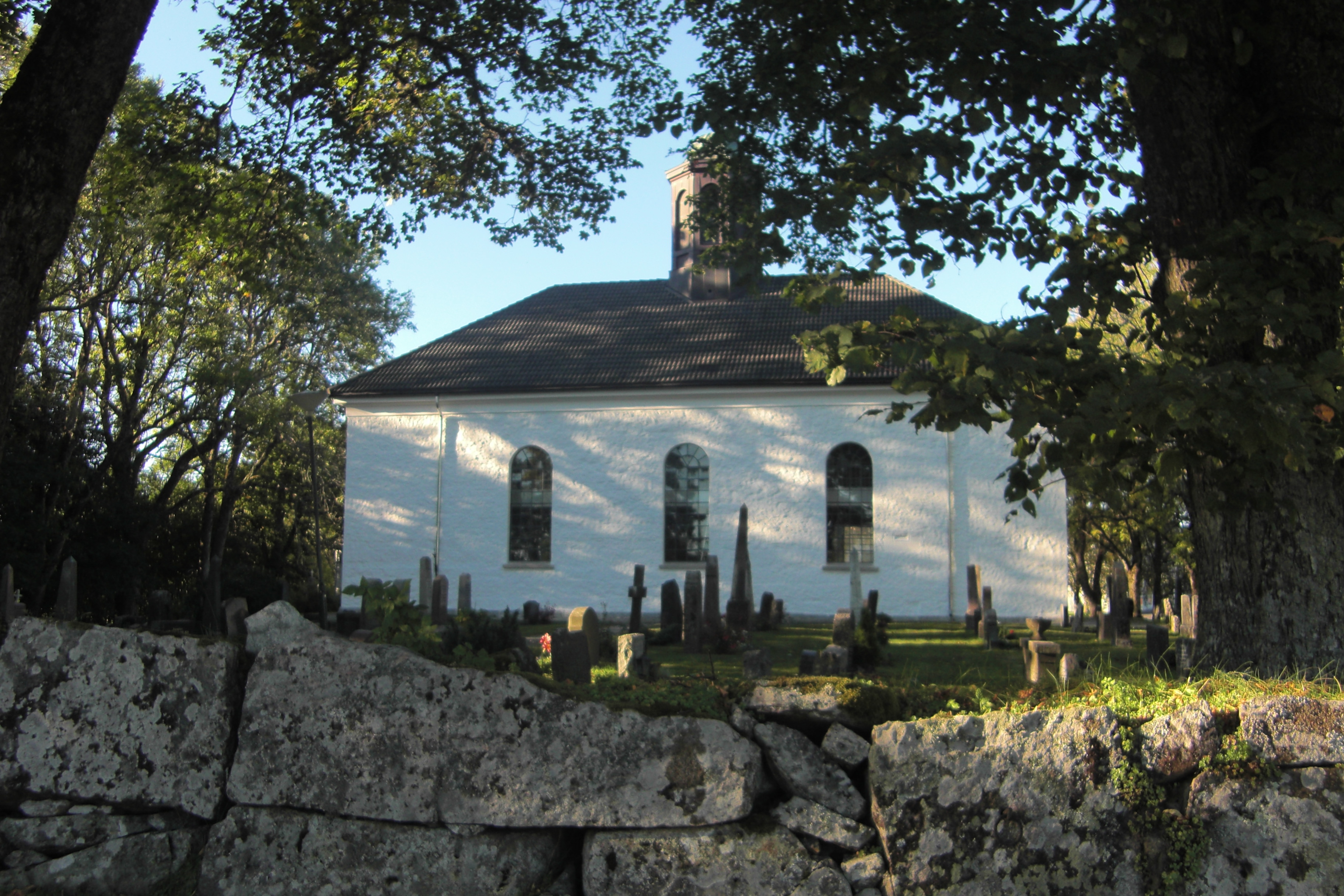 Spydeberg church in Spydeberg county, Østfold, Norway